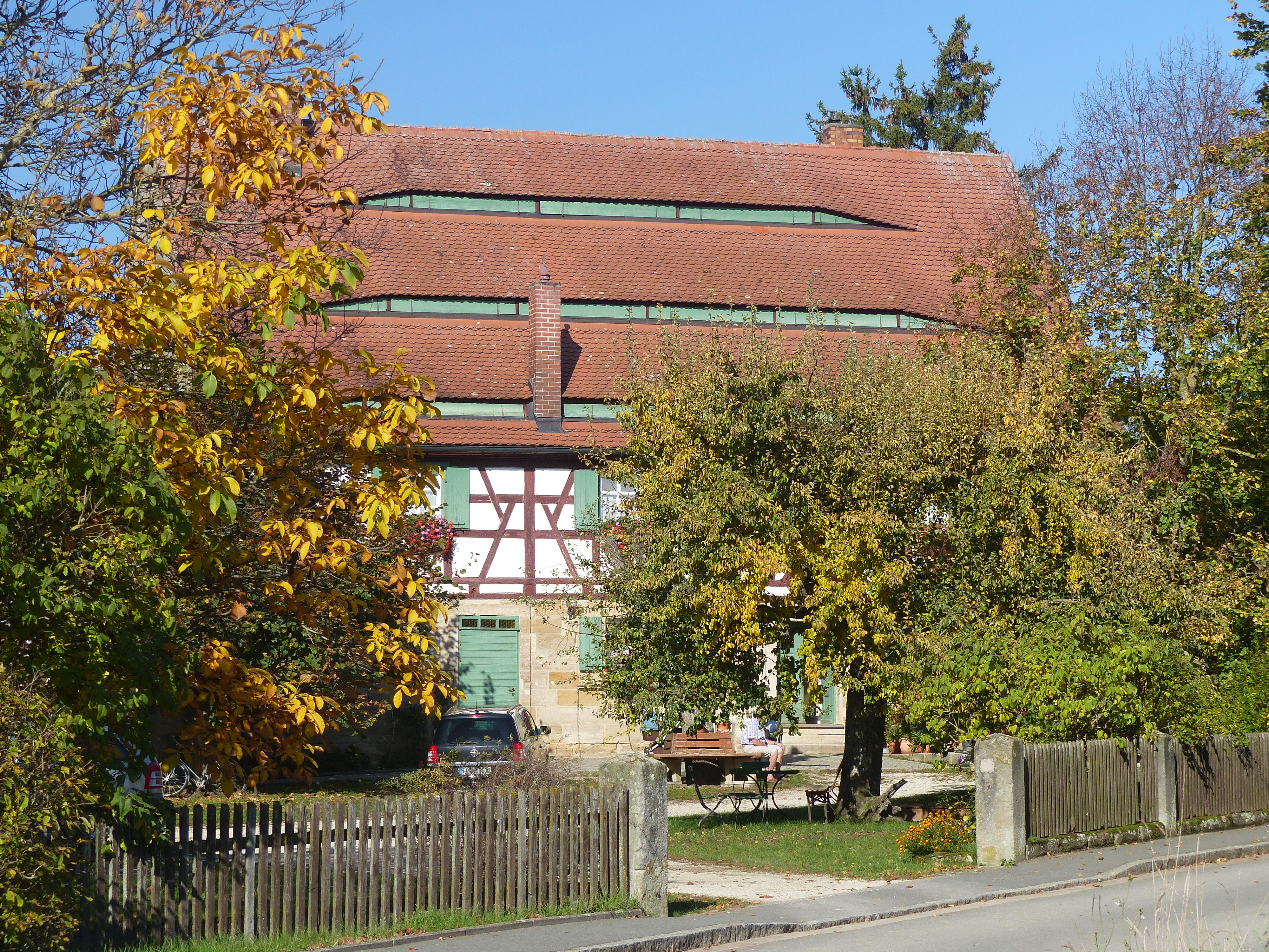 A farmhouse in the village Baad, a district of the municipality of Neunkirchen am Brand.